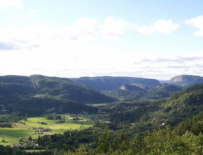 Kvinesdal